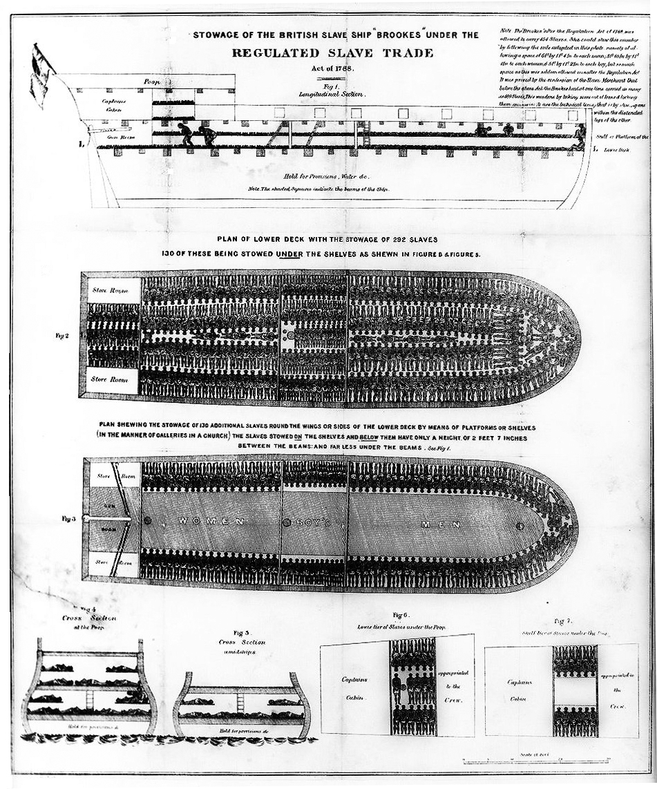 Stowage of the British slave ship Brookes under the regulated slave trade act of 1788